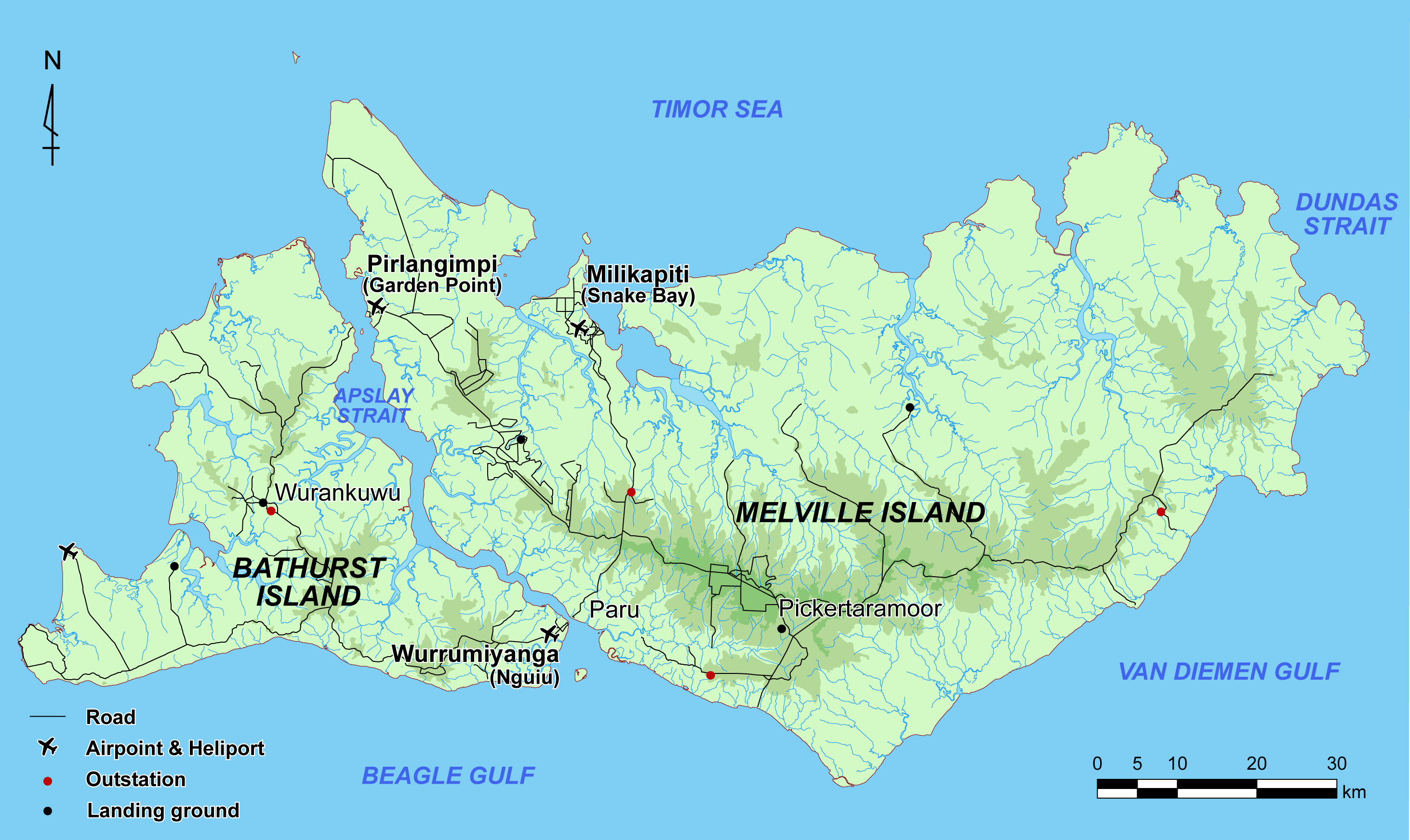 Map of Tiwi Islands made from .au GIS dataset